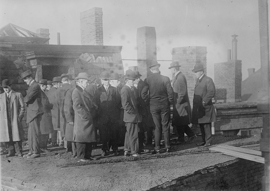 Bain News Service,, publisher. Grand Jury at Arcadia hotel fire [1913] 1 negative : glass ; 5 x 7 in. or smaller. Notes: Title from data provided by the Bain News Service on the negative. Photo shows aftermath of the Arcadia Hotel fire on Dec. 3, 1913 in Boston, Massachusetts. (Source: Flickr Commons project, 2010) Forms part of: George Grantham Bain Collection (Library of Congress). Format: Glass negatives. Repository: Library of Congress, Prints and Photographs Division, Washington, D.C. 20540 USA, General information about the Bain Collection is available at Persistent URL: Call Number: LC-B2- 2926-14